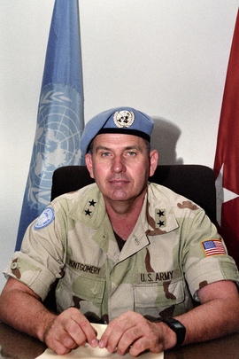 Lieutenant General Thomas M. Montgomery is a retired US Army officer who served as the deputy commander of UNOSOM I, UNITAF, and UNOSOM II in the Somali Civil War.